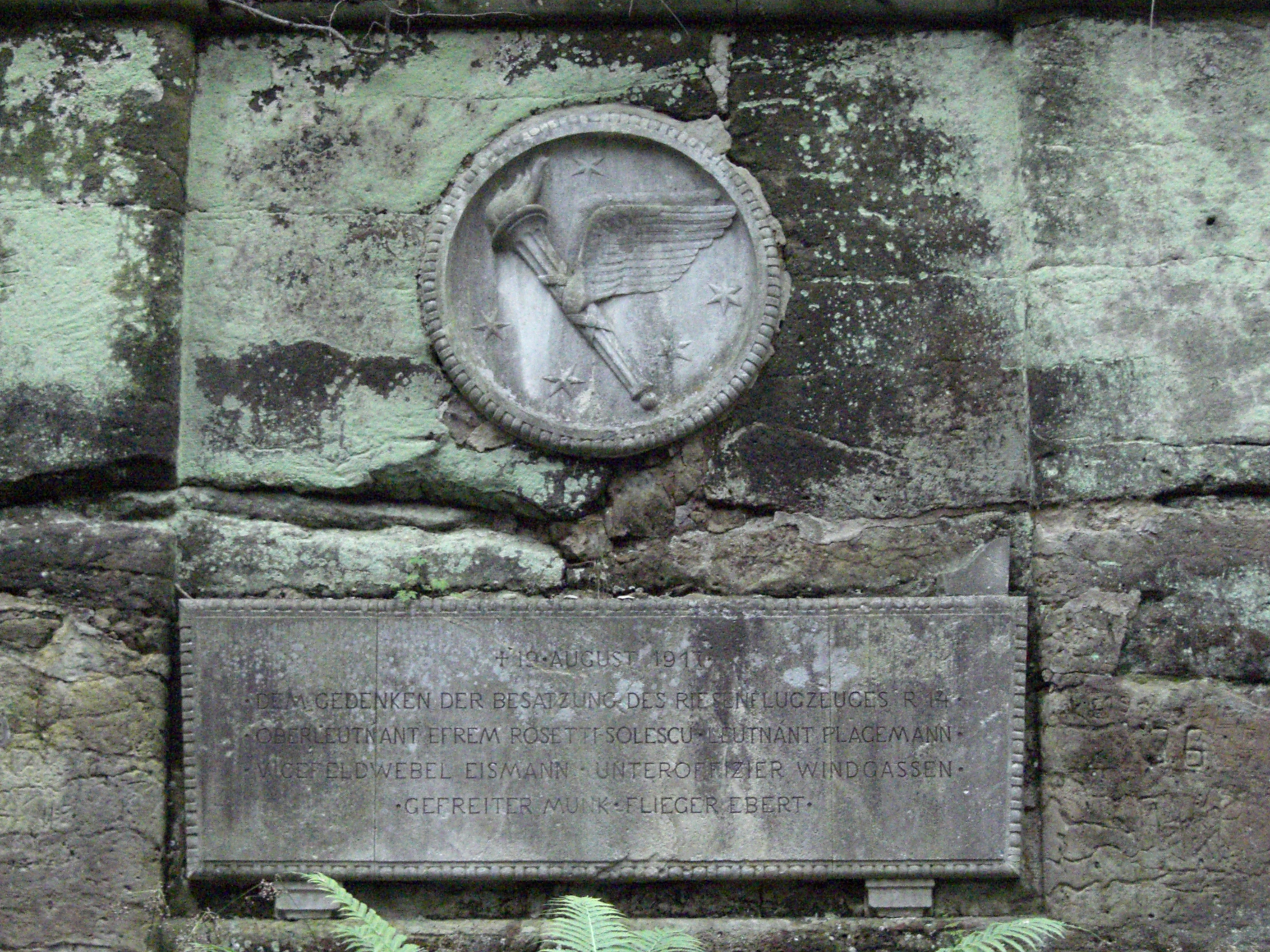 memorial to aviation (crash of a Linke-Hofmann R.I in 1917) in the Klusberge, South of Halberstadt, Saxony-Anhalt. The text on the monument reads: +19. AUGUST 1917.DEM GEDENKEN DER BESATZUNG DES RIESENFLUGZEUGS R 14.OBERLEUTNANT EFREM ROSETTI-SOLESCU.LEUTNANT PLAGEMANN.VICEFELDWEBEL EISMANN.UNTEROFFIZIER WINDGASSEN.GEFREITER MUNK.FLIEGER EBERT.